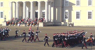 Sovereign's Parade 16th December 2005, Old College, RMA Sandhurst